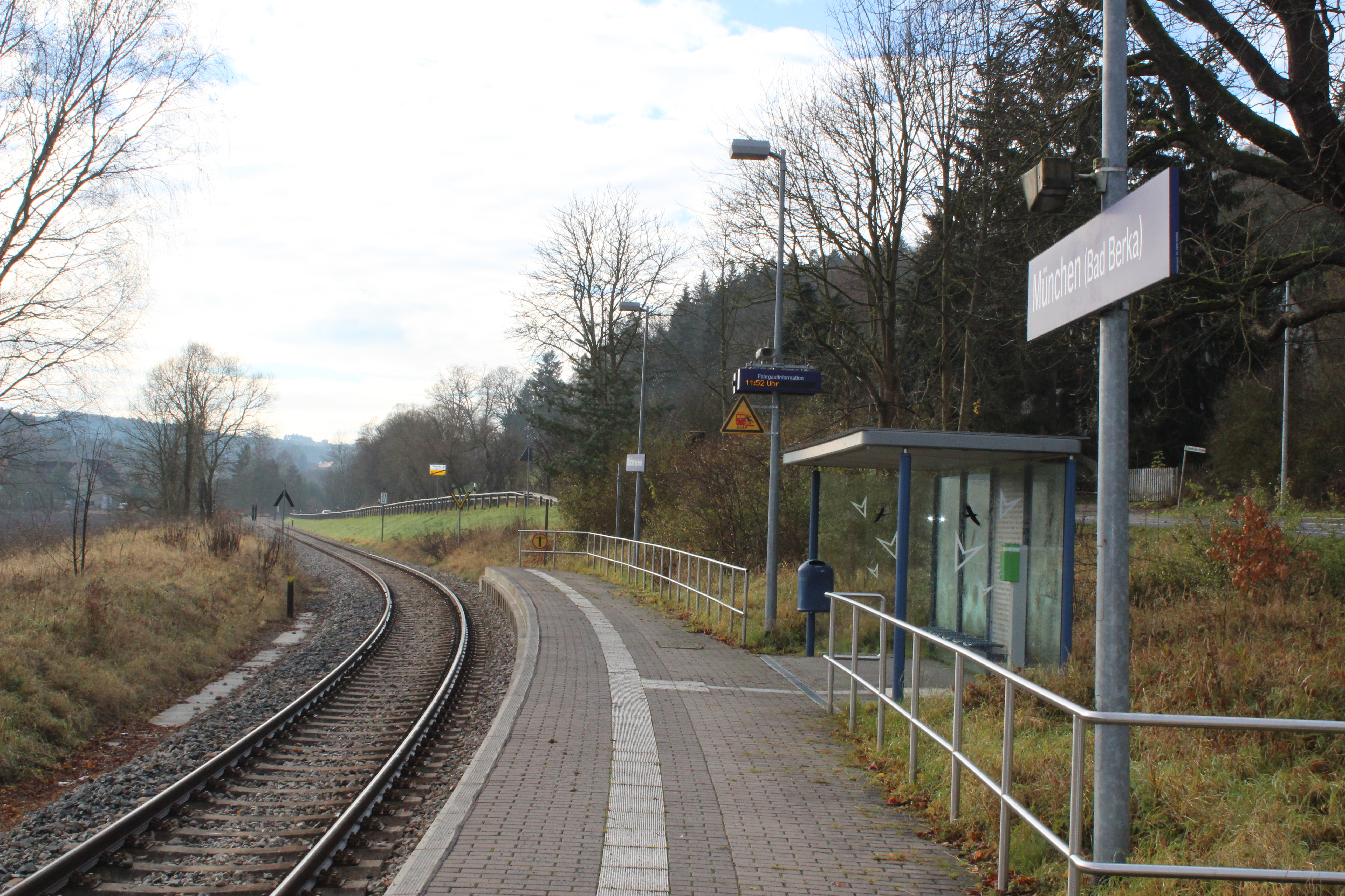 train station München (Bad Berka)